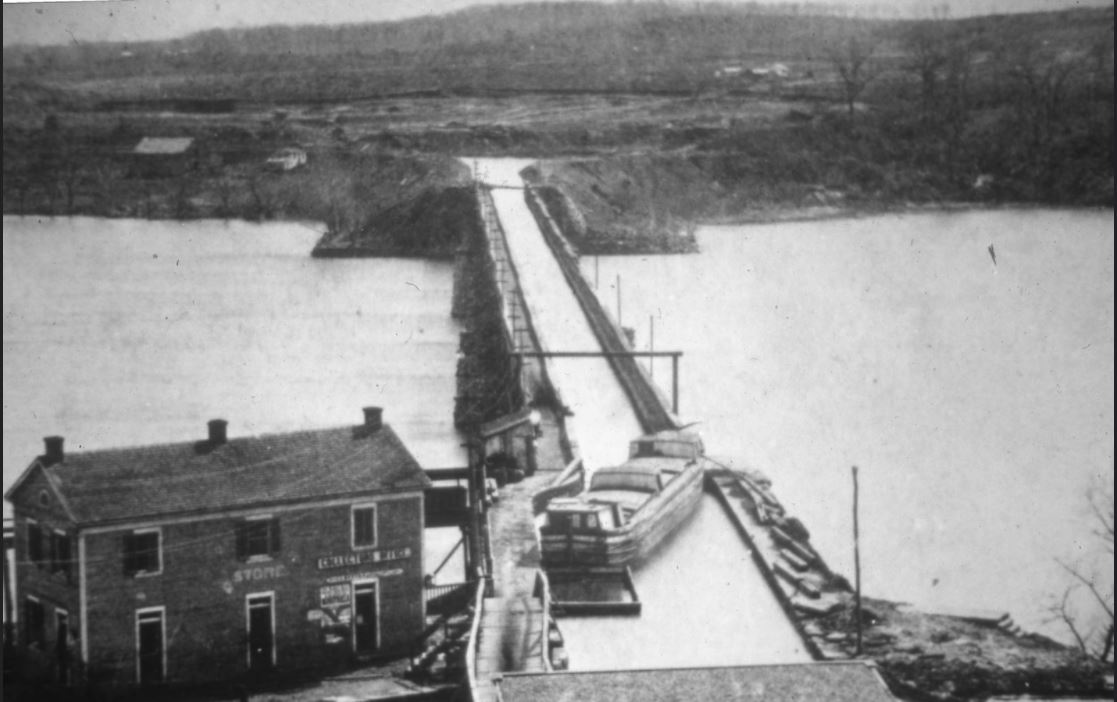 View from Washington DC (near Exorcist steps) into Rosslyn, Va. Potomac Aqueduct Bridge was abandoned in 1886 and converted to a foot/vehicle bridge and then abandoned and removed when Key bridge was constructed.